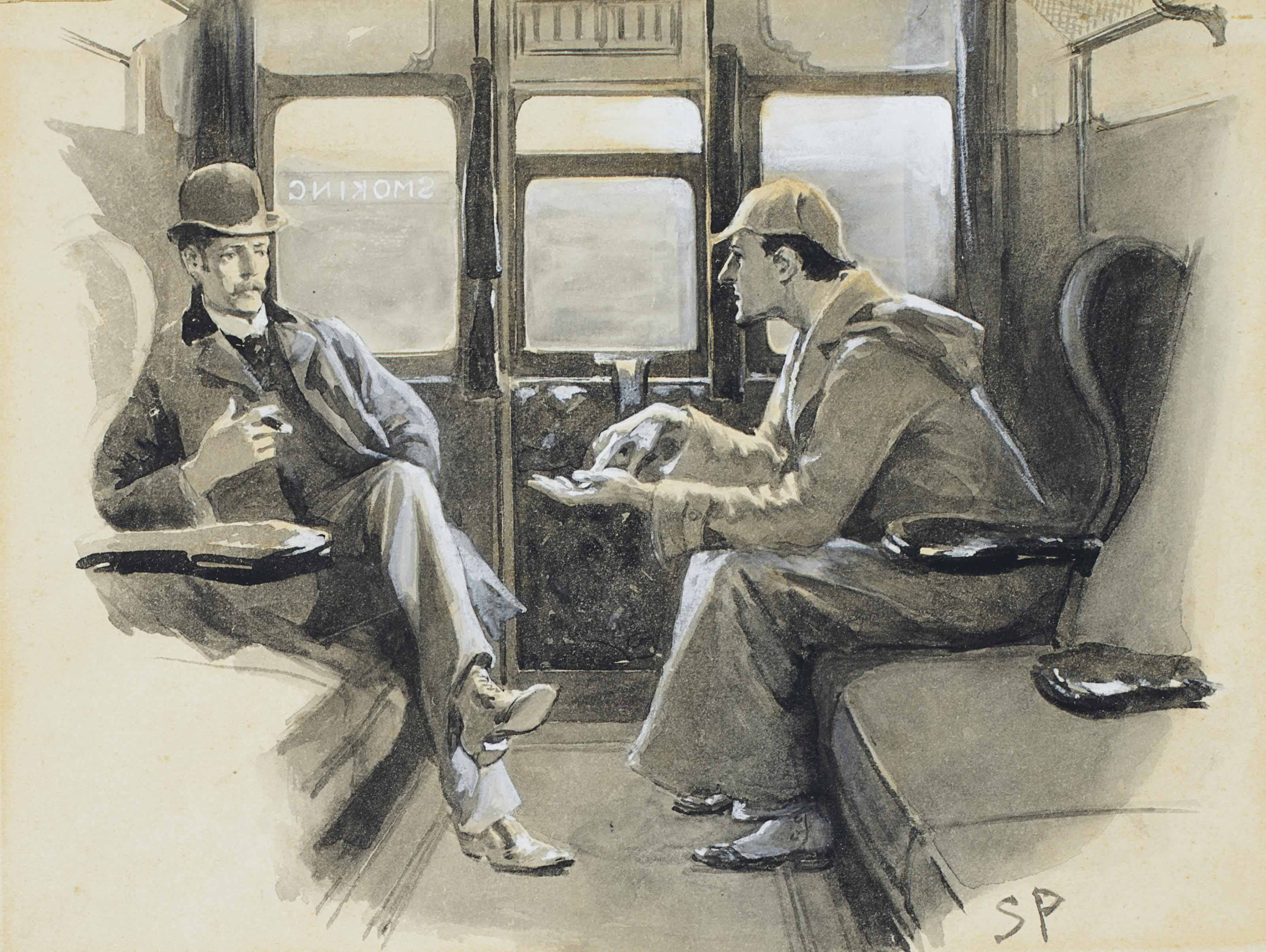 Original gouache and watercolor drawing for Arthur Conan Doyle's Sherlock Holmes story The Adventure of Silver Blaze, signed SP in lower right-hand corner. The drawing is captioned in ink (probably by Paget) along the right-hand margin: Holmes gave me a sketch of the events. Published in The Strand Magazine, December 1892, p. 646.